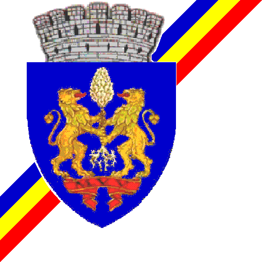 Flag of Ploiesti, Romania. Official status unknown.